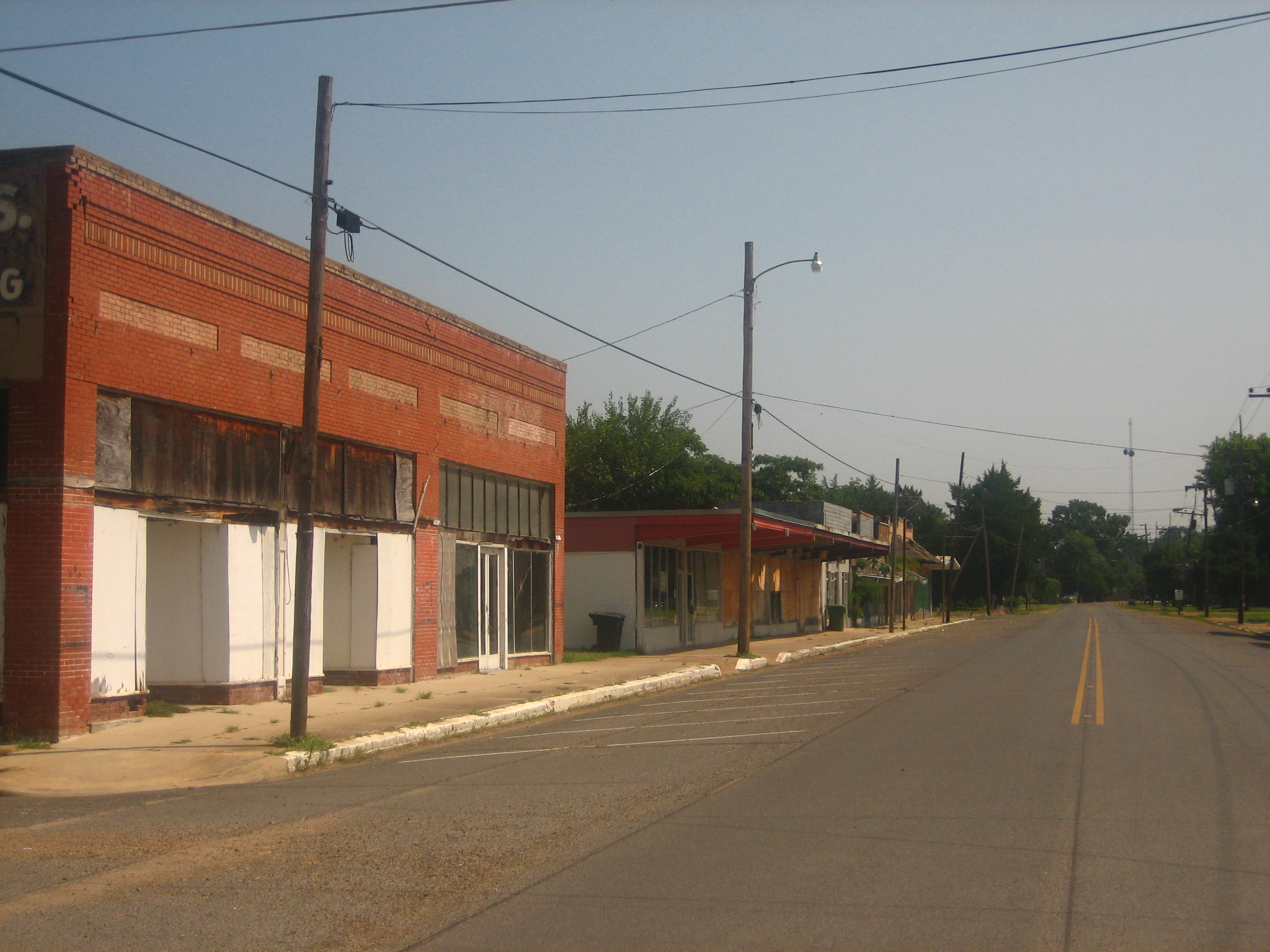 Waterproof, Louisiana. I took photo on Aug. 2, 2008. Billy Hathorn (talk) 02:21, 16 August 2008 (UTC)